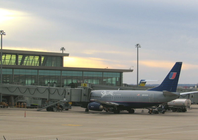 Photo By: Daniel2986 16:28, 16 January 2007 (UTC)